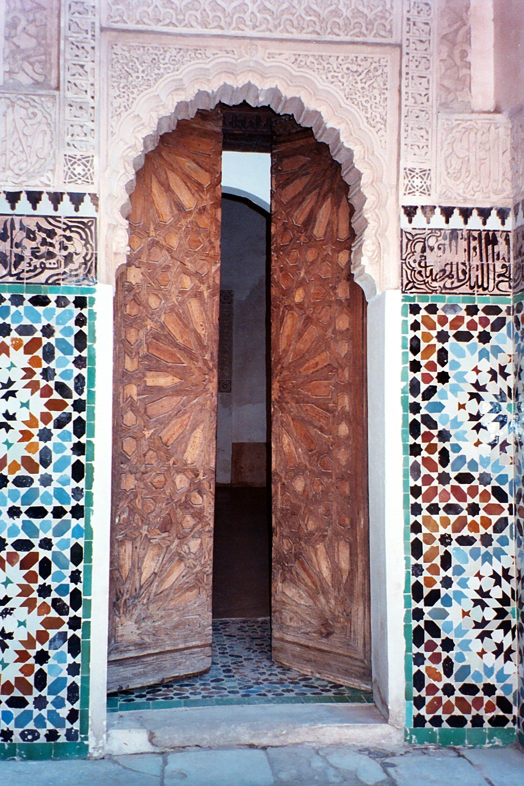 A small doorway in Ben Youssef Madrasa, Marrakech. The wooden doors are carved with a girih pattern of strapwork. The arch is surrounded with arabesques; to either side is a band of Islamic calligraphy, above colourful geometric zellige tilework.